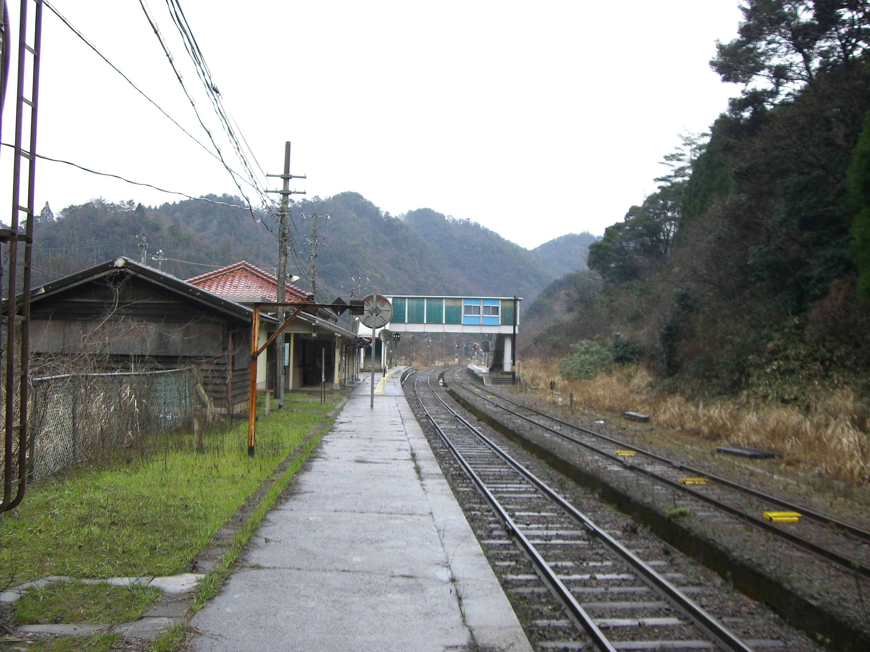 West Japan Railway Company San'in Main Line Igumi Station enclosure.